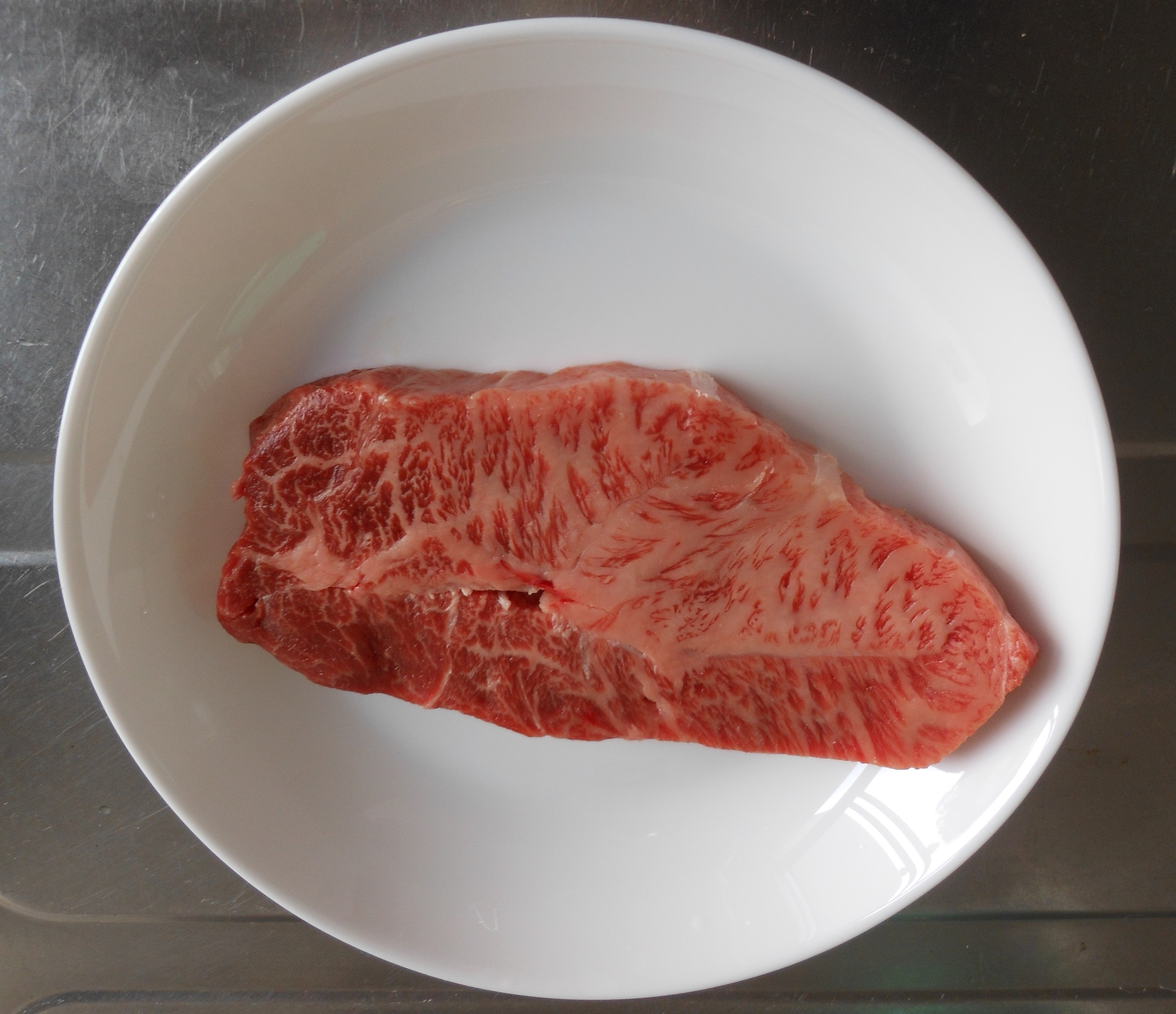 This is a steak of Hitachi beef.